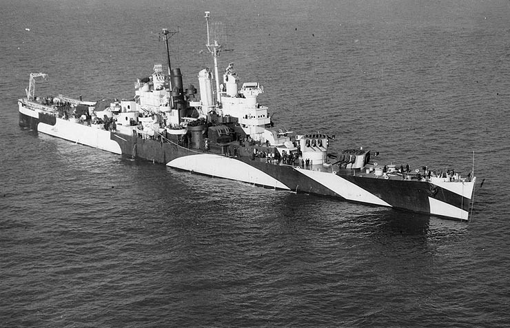 The U.S. Navy light cruiser USS Houston (CL-81) off Norfolk, Virginia (USA), on 12 January 1944. She is painted in Camouflage Measure 32, Design 1d.